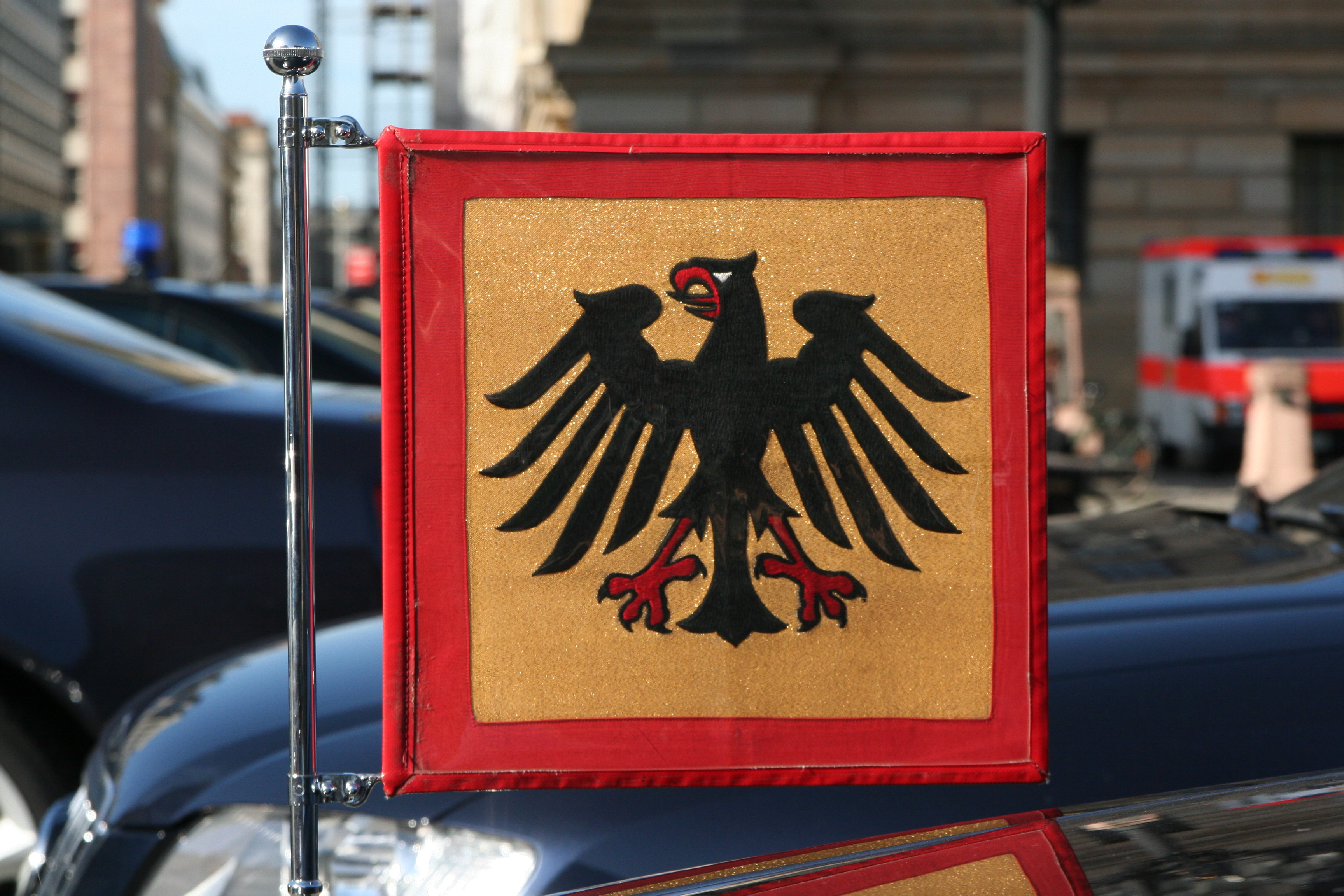 Standard of the President of the Federal Republic of Germany